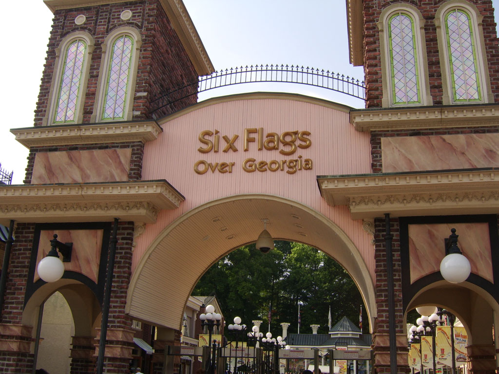 Six Flags over Georgia entrance